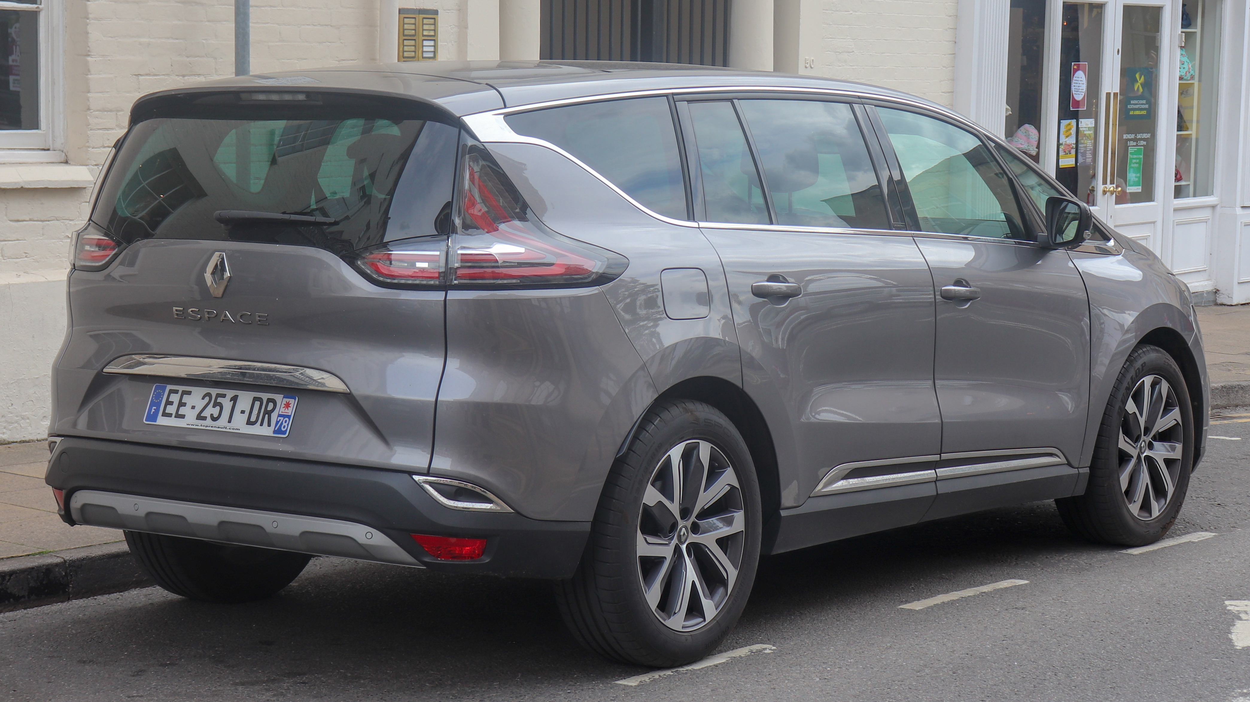 2015-present Renault Espace Rear Taken in Warwick